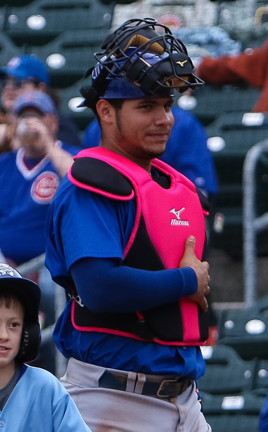 Willson Contreras